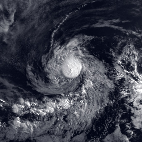 This image shows an unnamed tropical storm on May 14 at 1451 UTC. This image was produced from data from NOAA-12, provided by NOAA.